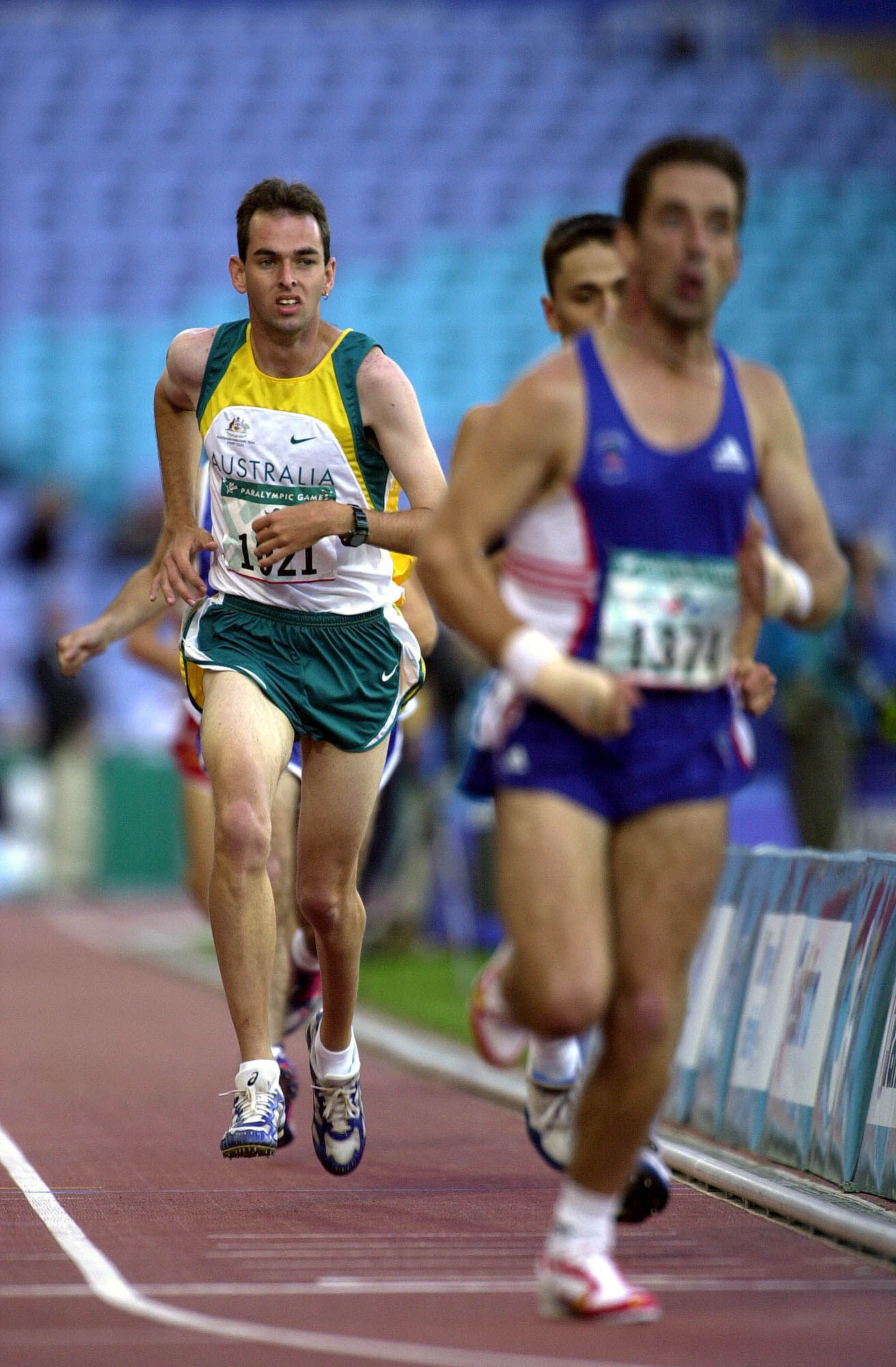 Action shot of Australian track athlete Malcolm Bennett sprinting during the 800 m T36 final event at the 2000 Sydney Paralympic Games, Day 03